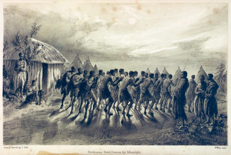 Bechuana Reed Dance by Moonlight